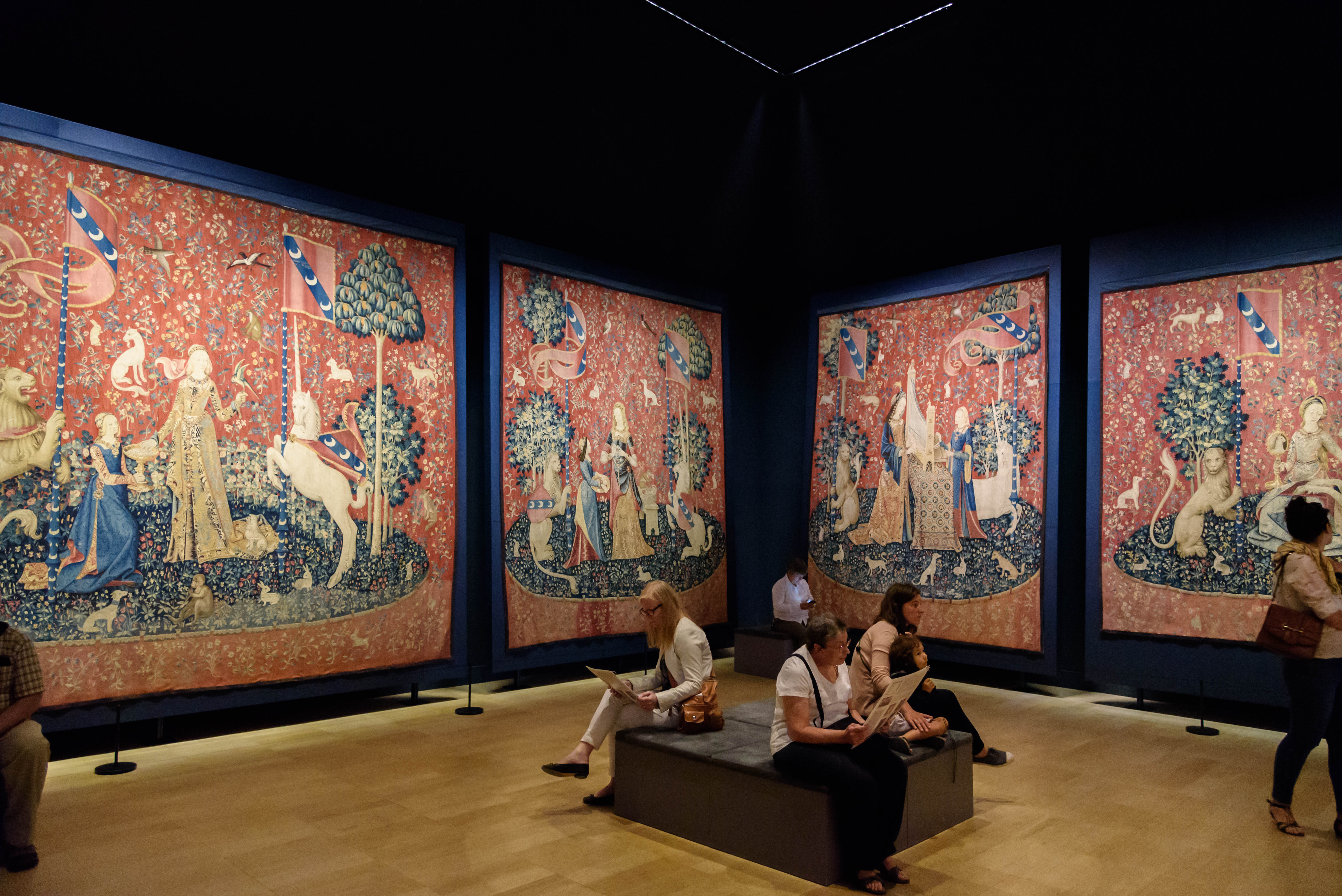 These famous tapestries date from around 1500 and are located in the Musée national du Moyen Âge in Paris. There are 6 tapestries in the set, five depicting the senses of taste, hearing, sight, smell and touch. The last has the motto "À Mon Seul Désir" that translates roughly to "my one desire". The room that houses the tapestry is very dark with limited lighting to preserve them.